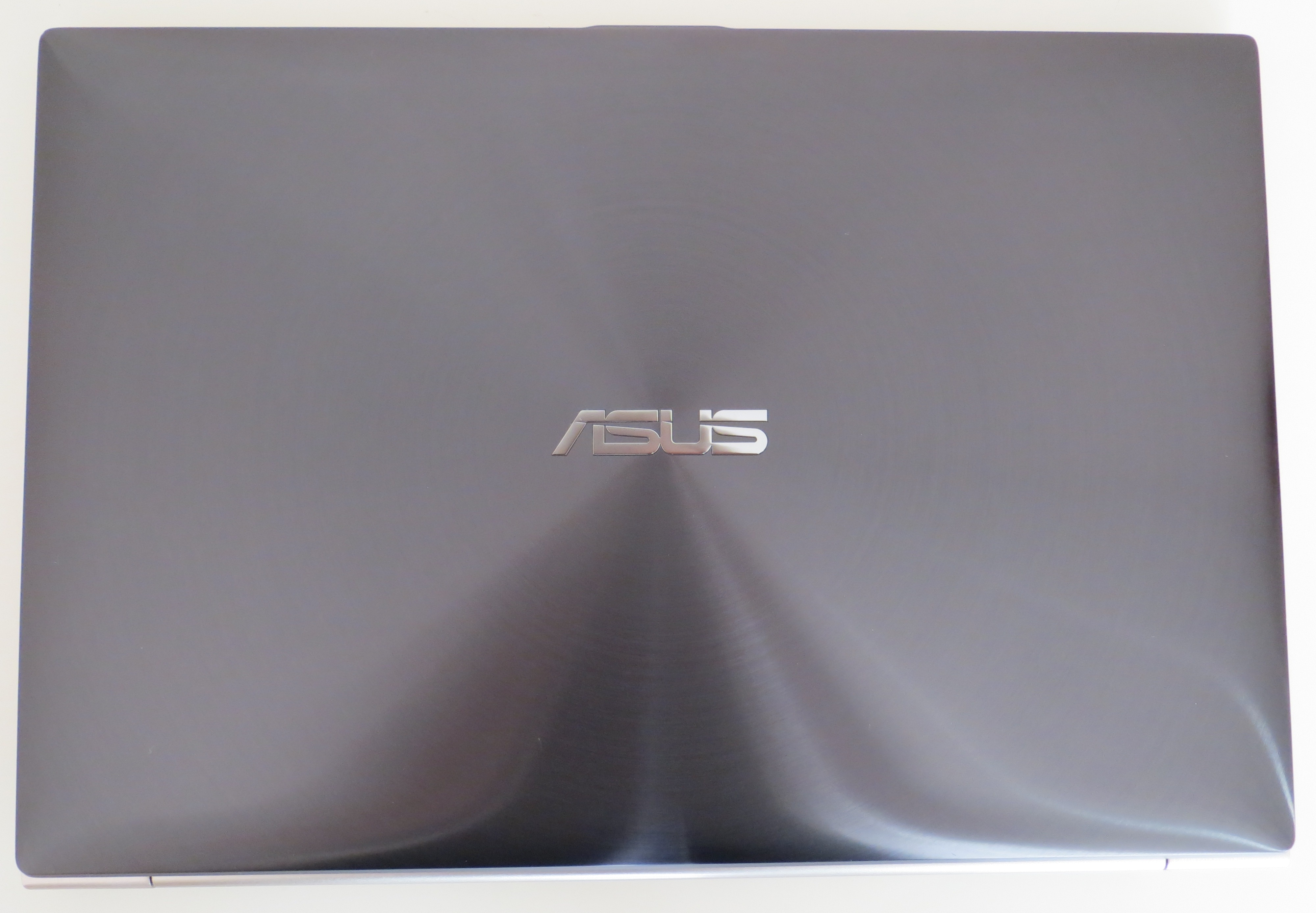 The lid of an Asus UX31A